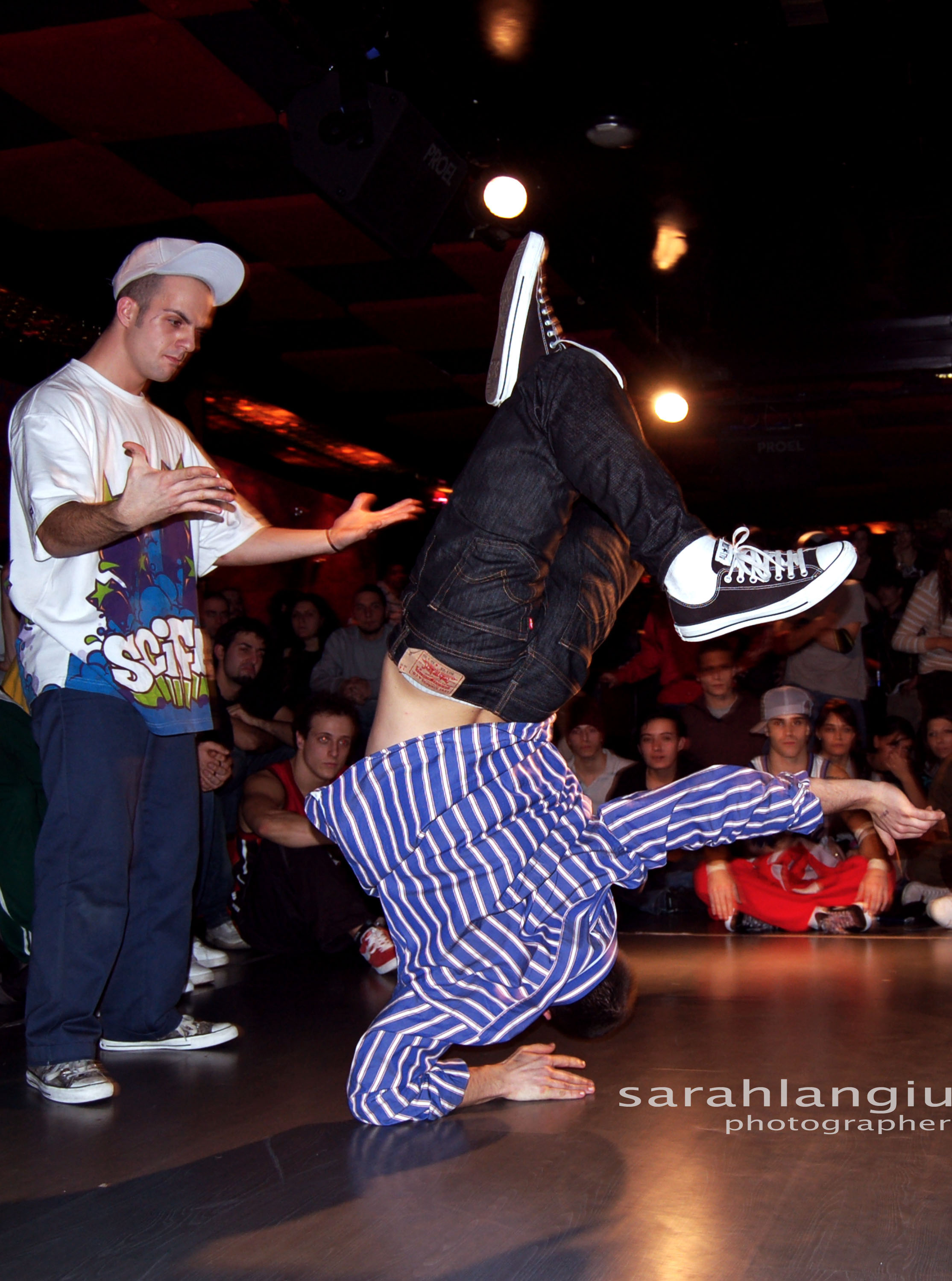 B-boy Nexus (Urban Force crew) breaking at "Funky Afternoon" battle 2vs2 in Rome (Italy).